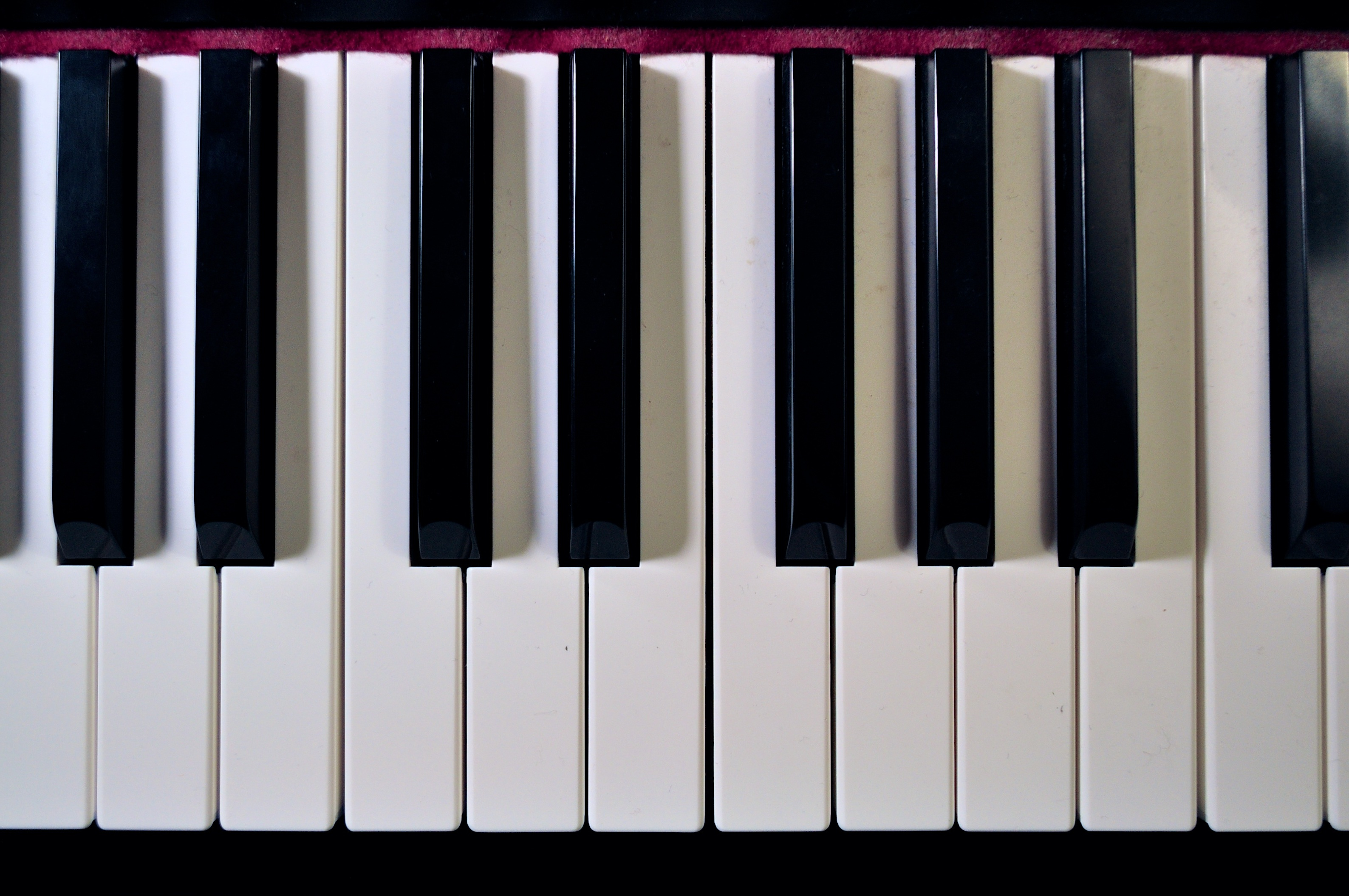 Keyboard of Roland electric piano